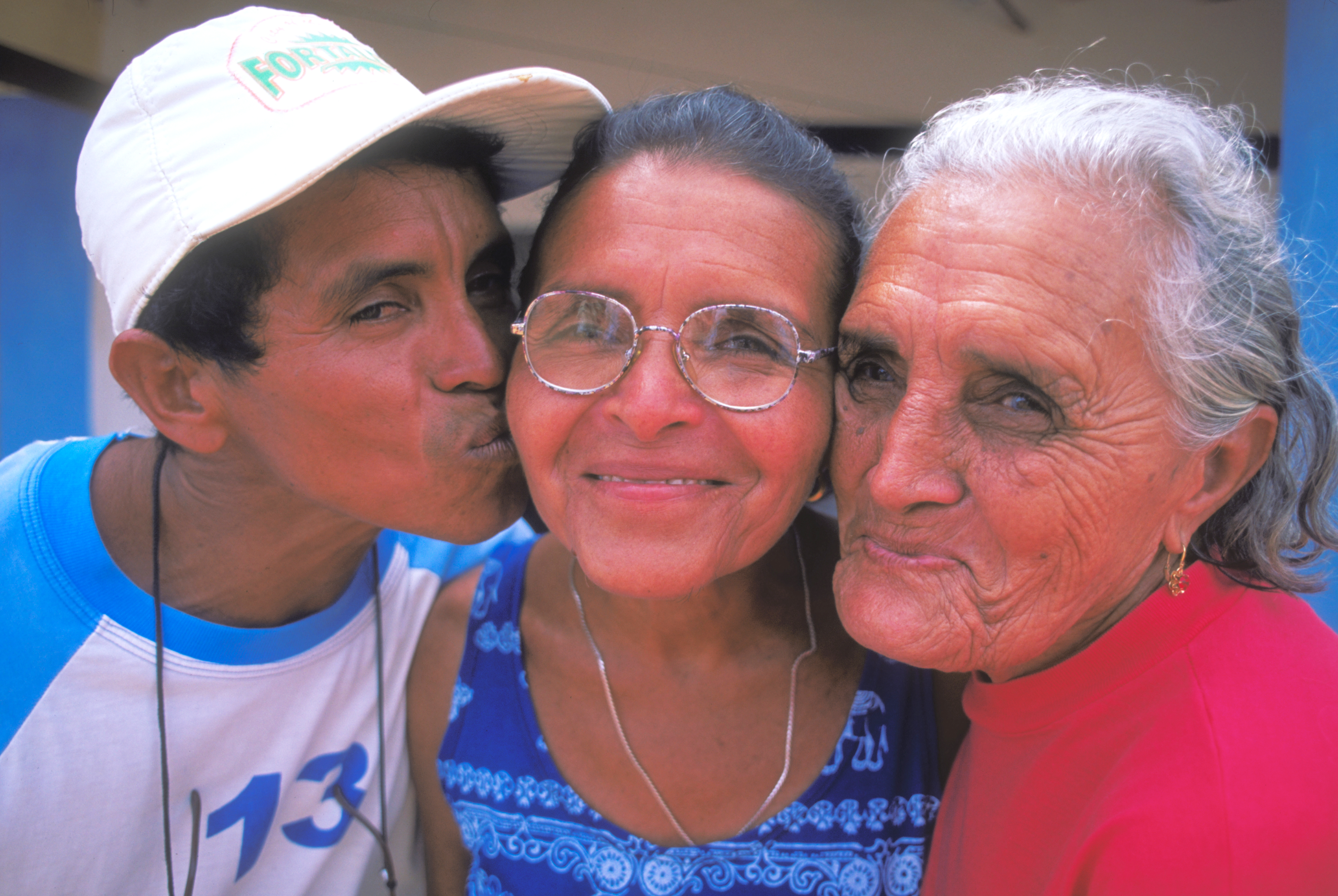 This family portrait includes son, mother and grandmother in one picture. I took the picture on the coast of Brazil just north of Fortaleza.